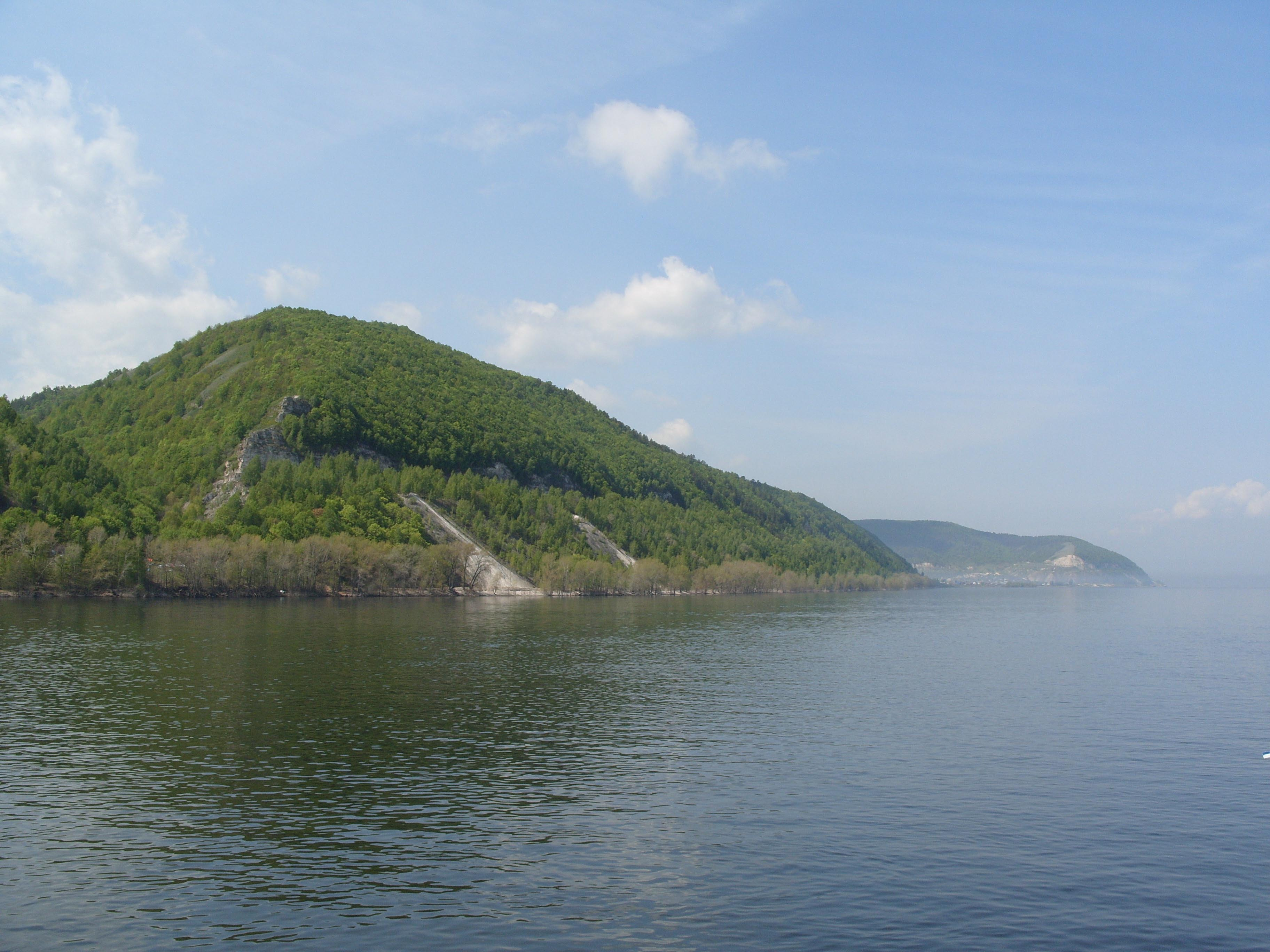 Samara's bend near Tsarevschino